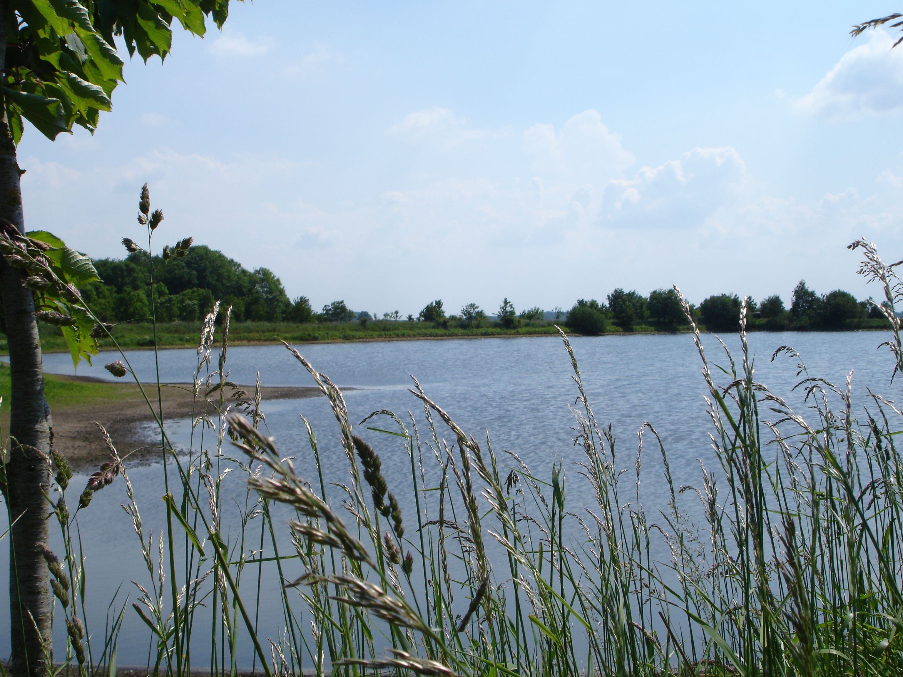 Old mud tank of the sugar refinery of Marconnelle (closed 2007)